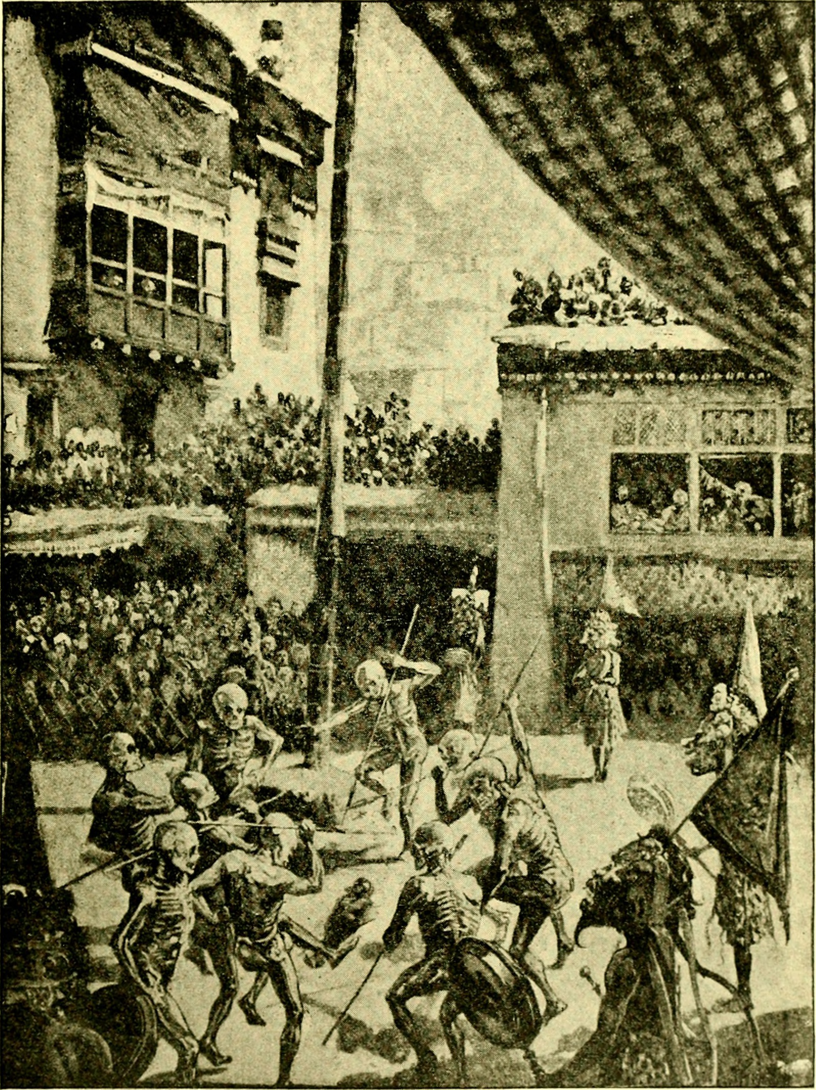 Title: The Open court Year: 1887 (1880s) Authors: Carus, Paul, 1852-1919 Open Court Publishing company, Chicago Subjects: Religion Religion and science Publisher: Chicago : The Open Court Pub. Co. Text Appearing Before Image: The same is true of \etalas who are spirits capable of reani-mating dead bodies. Accordingly there is a marked difference be-tween the Christian and the Tibetan Death dances. The former TUl-: SKELETON AS A REPRESENTATION OF DEATH. 625 ones, though called dances are not always dances, but simply illus-trations of the innumerable ways of Death, and Death is repre-sented in them as a skeleton. It is noteworthy that the dead are ^*** Text Appearing After Image: THE DANCE OF THE NINE SKELETONS.From Knights Where Three Empires Meet. never represented as skeletons in Christian art. When they rise fromthe grave, or are led to judgment, they arc always clothed withflesh; they are naked but never reduced to bones only, while we have 626 THE OPEN COURT. reason to believe that the Tibetan skeletons are ghosts, or ratherthe reanimated remains of the dead. They may be good ghostssuch as the protectors of the graveyard, or evil ones like the nineskeletons that try to injure the body of a new arrival at the realmsof death.